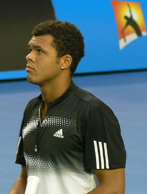 Jo-Wilifred Tsonga at his 2008 Australian Open semifinal. SOURCE: I am the photographer of this image.